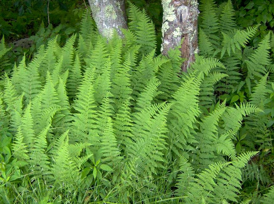 Dennstaedtia punctilobula growing in the Monongahela National Forest, West Virginia